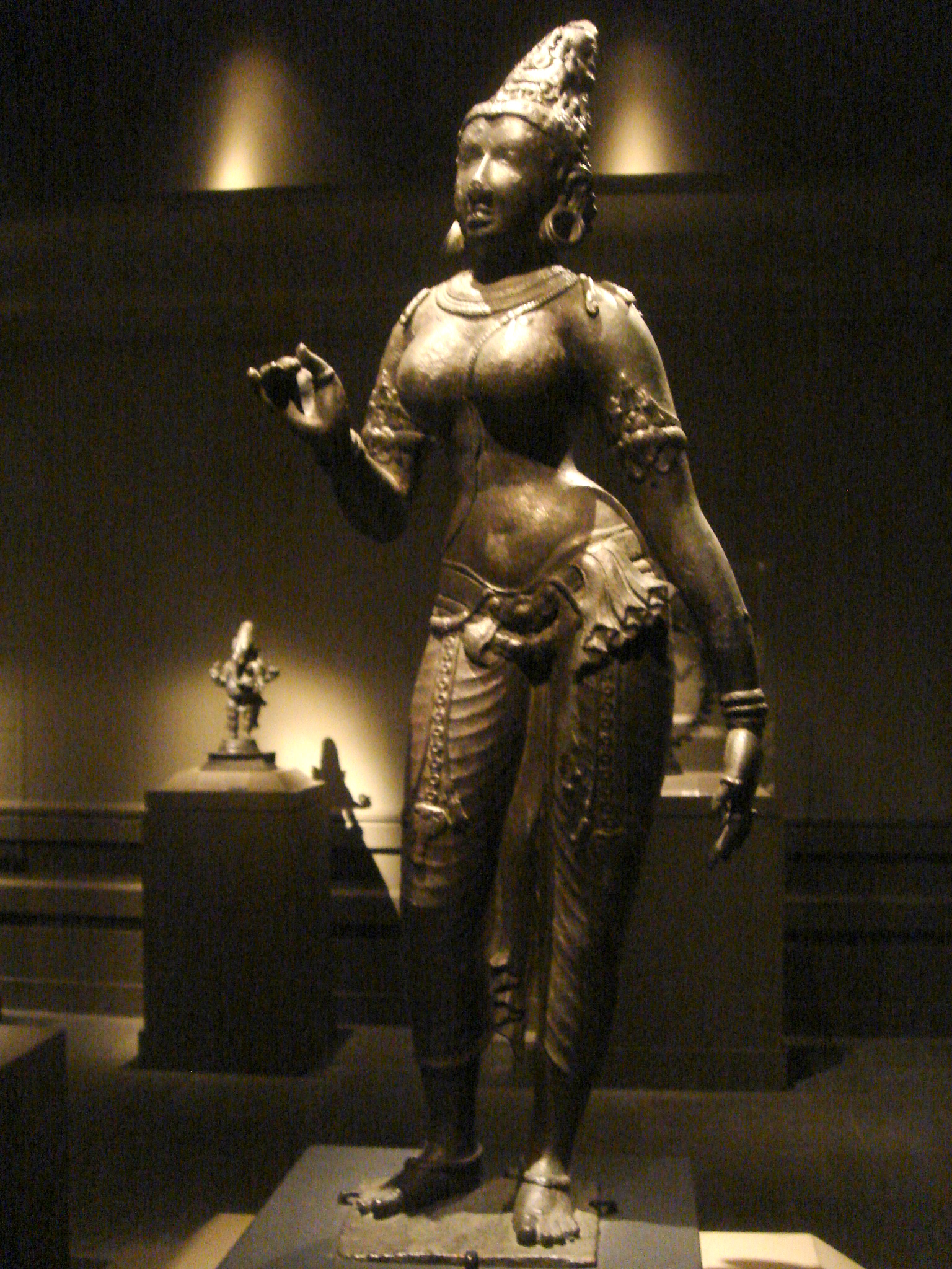 Parvati, Tamil Nadu, Chola, 10th century